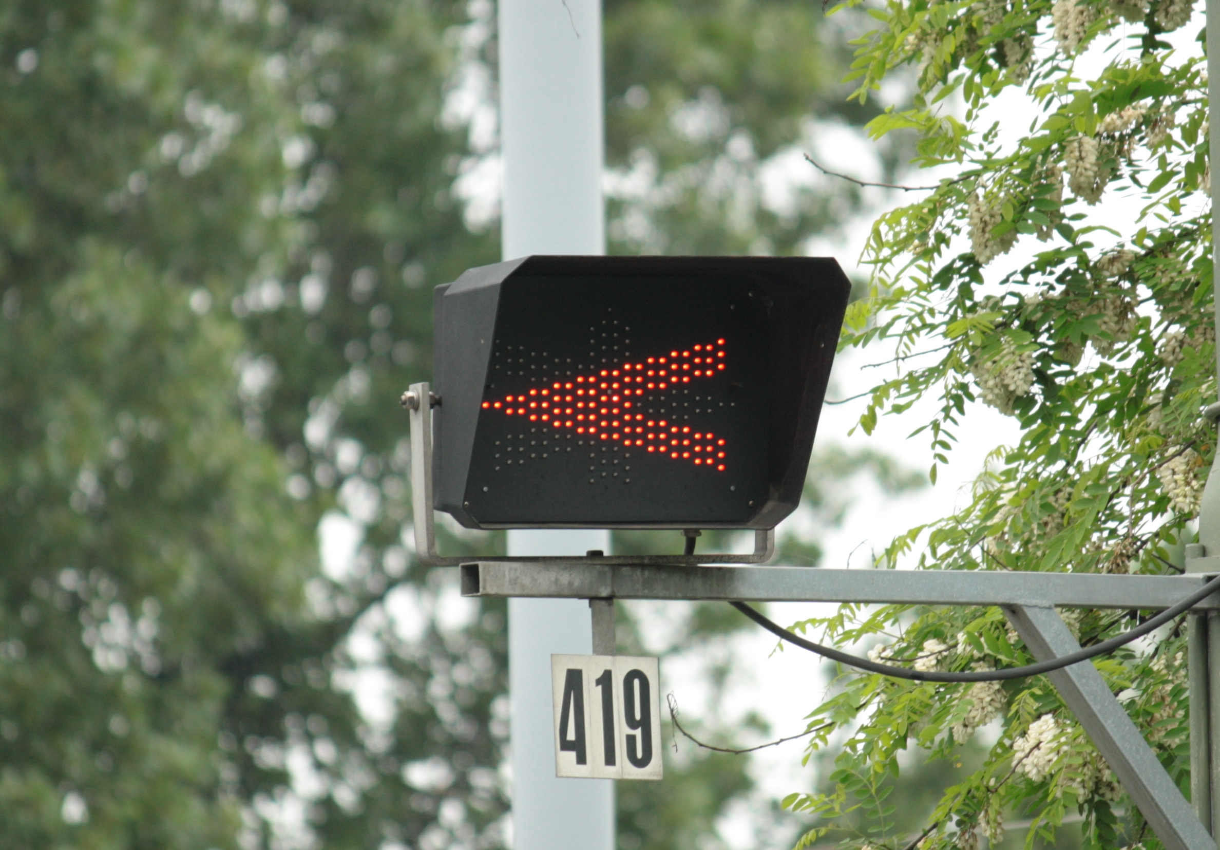 A tram signal at Milady Horákové - U Brusnice streets crossing, Prague-Hradčany, CZ This photograph was taken with a DSLR from WMCZ's Camera grant.